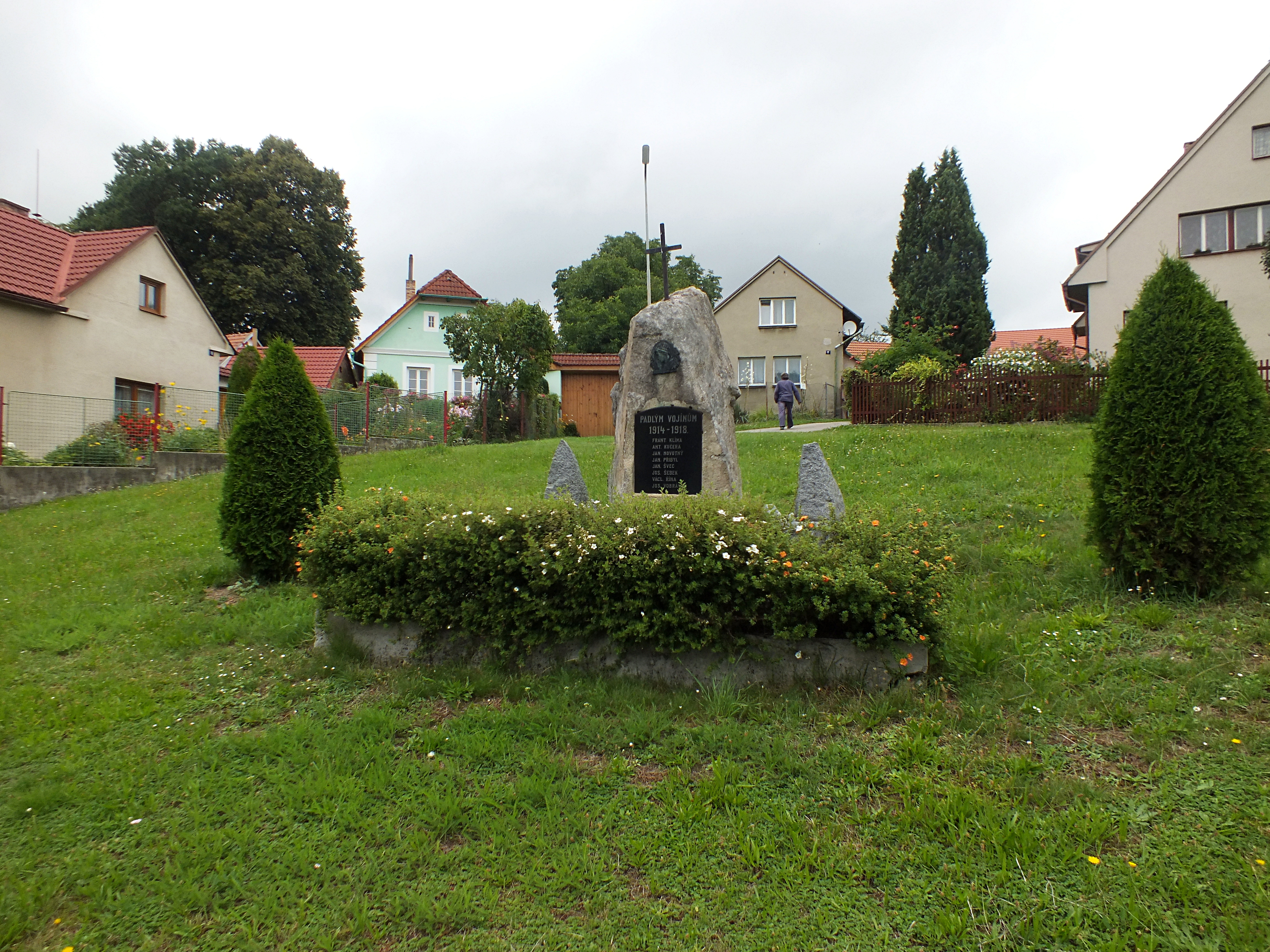 The memorial of the fallen from the World War I on the square in Řemíčov